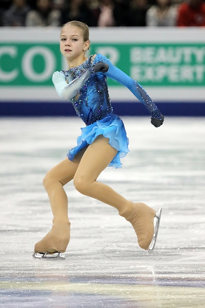 Alexandra Trusova at the Junior Grand Prix Final 2017